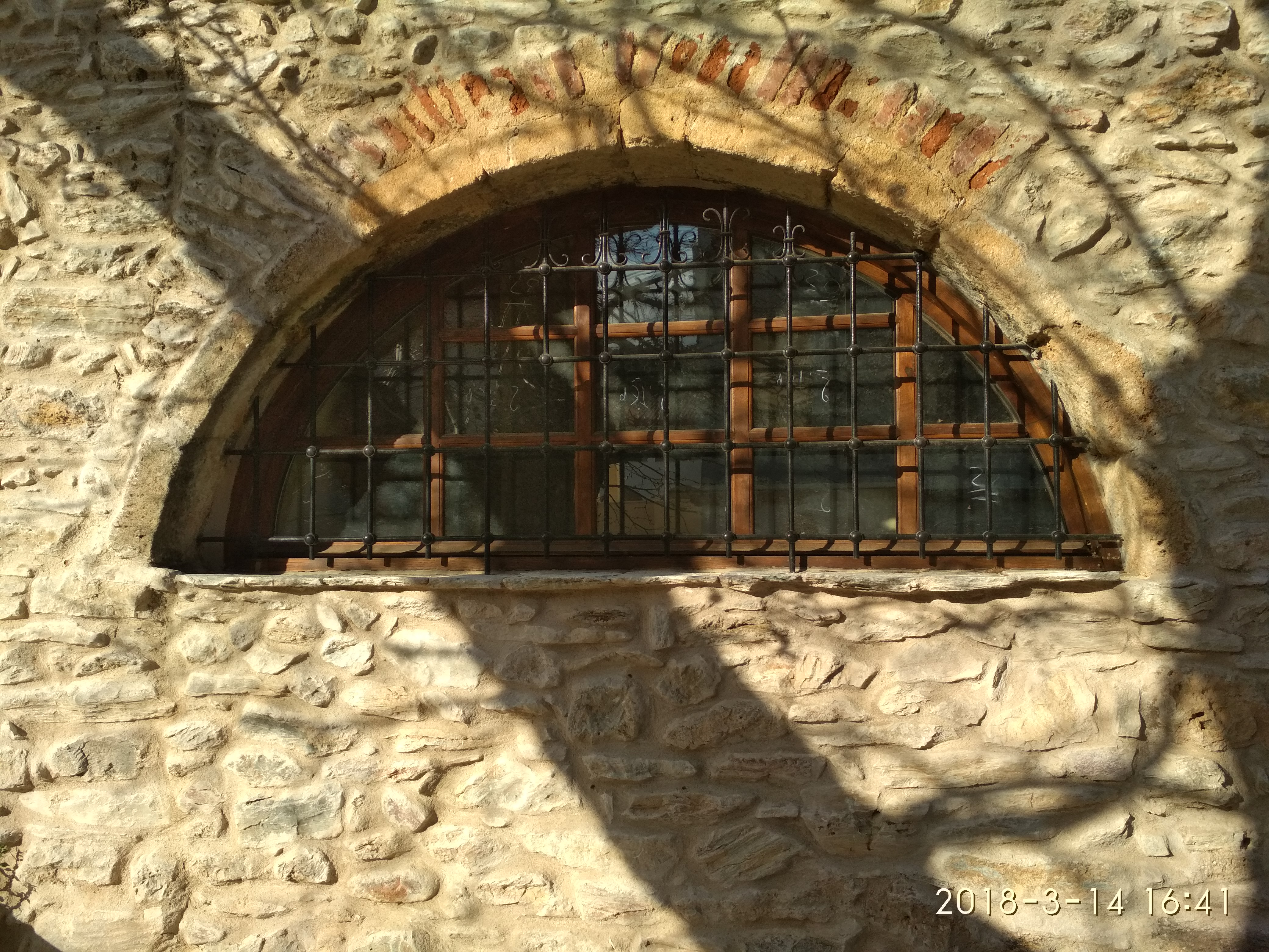 Old window of a christian orthodox church